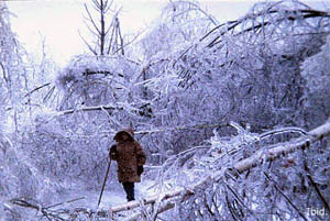 undetermined, NY, January 25, 1998 -- Ice covered much of the foliage in the region, weighing down trees and causing extensive damage to property. FEMA News photo by John Ferguson